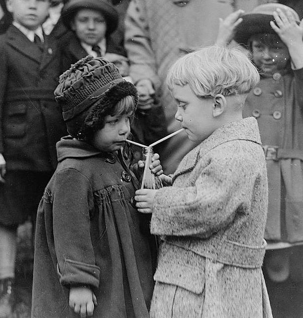 "Fifty-fifty-- Something better than rolling easter eggs. Snaped at the White House today." "A boy and a girl sharing a drink, each with their own straw in the bottle." In album: Washington, D.C., 1 April 1922 to 29 April 1922, v. 4, Herbert E. French, National Photo Company, p. 25, no. 18523. Forms part of: National Photo Company Collection (Library of Congress). Original glass negative may be available: LC-F8-18523